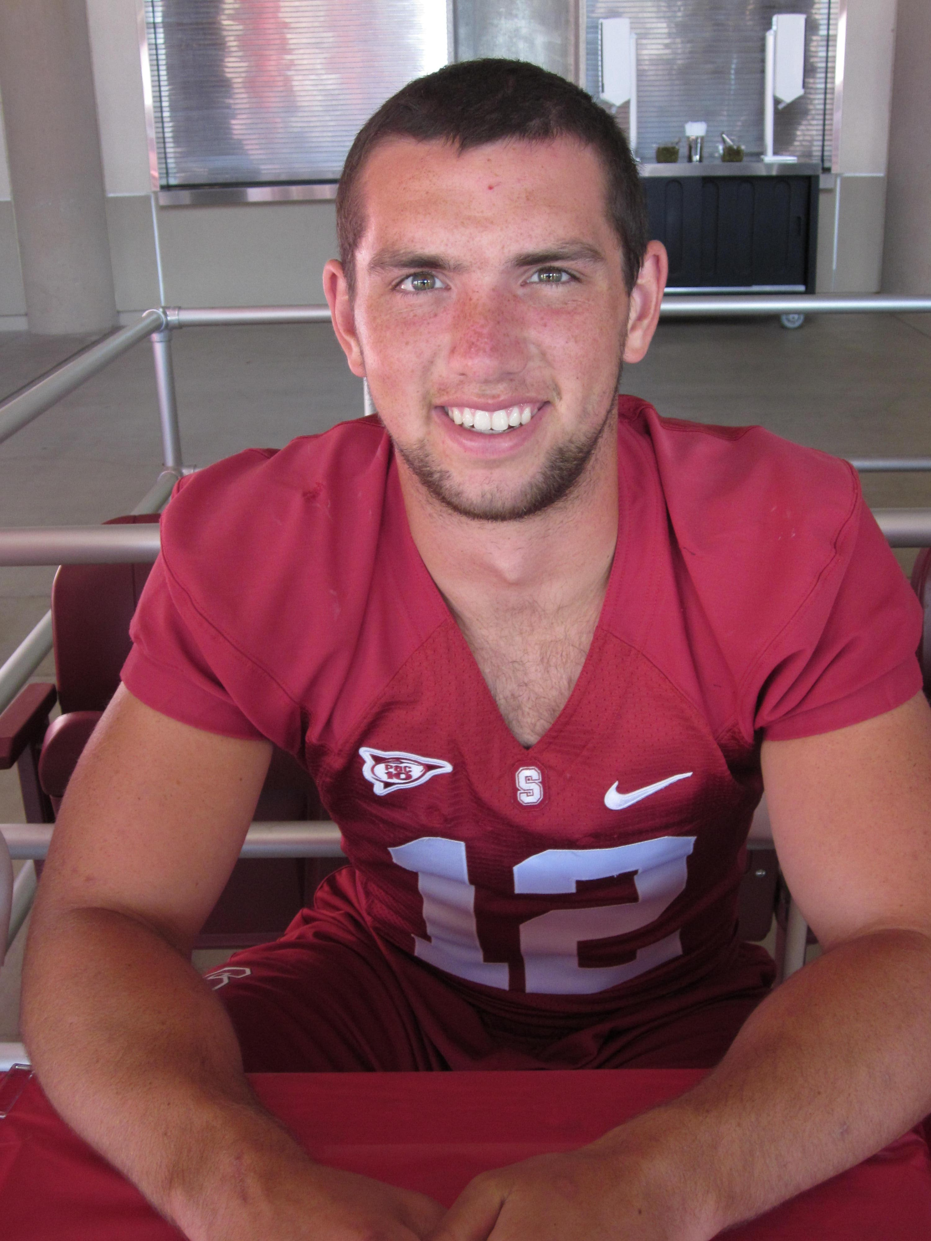 Stanford quarterback Andrew Luck at the football open house at Stanford Stadium.